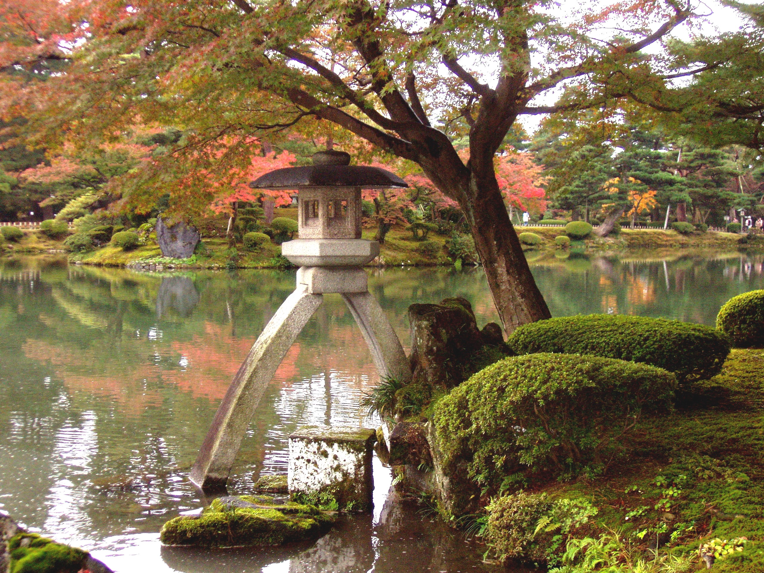 Kotojitoro Lantern, Kenrokuen Garden, Kanazawa, Ishikawa Prefecture, Japan. Photograph taken by me, mid-November 2005.